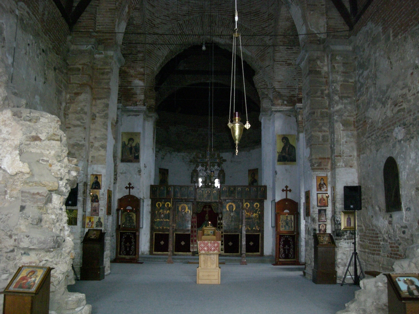 Banjska Monastery, interior overview